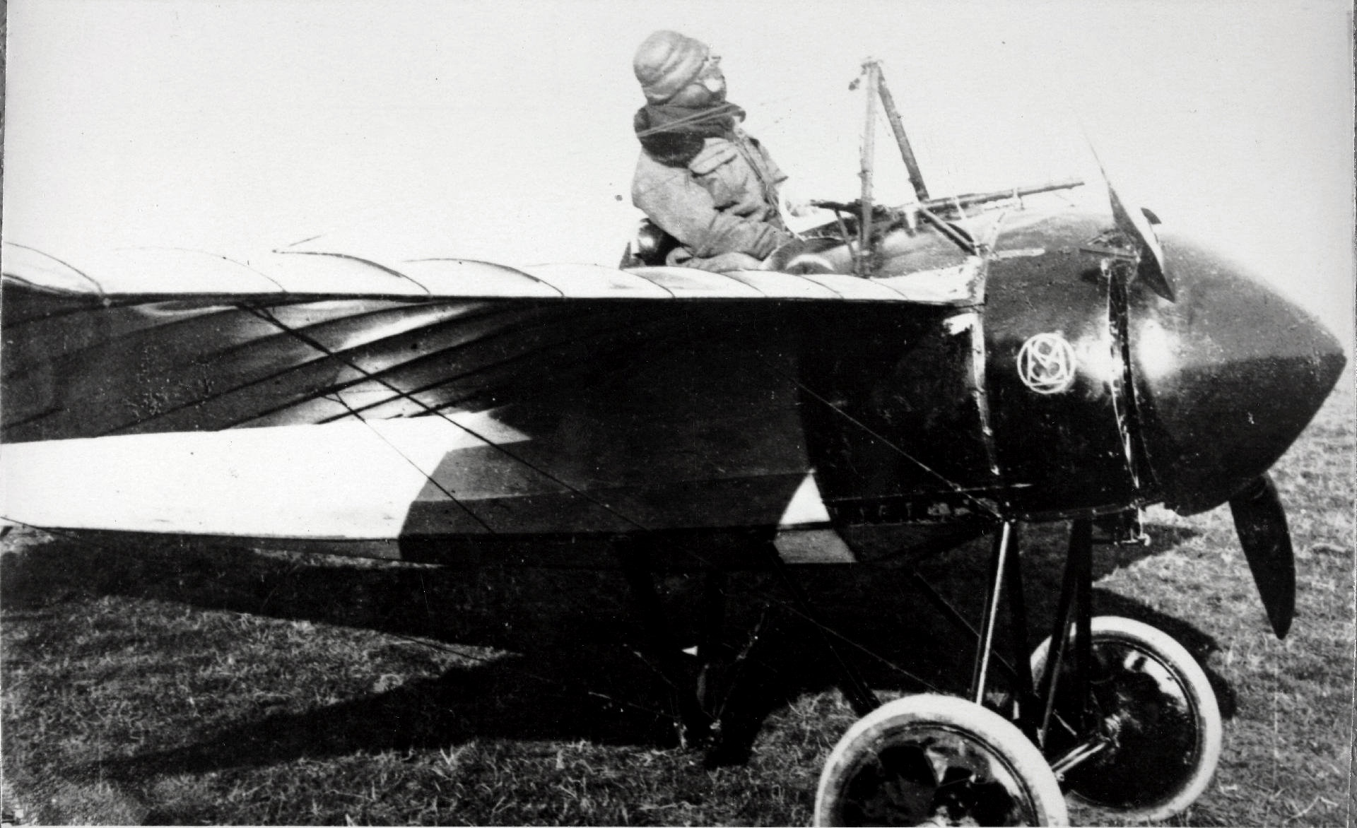 Morane-Saulnier N French First World War fighter